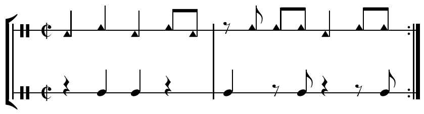 Mozambique primary bell pattern above a rumba clave. A two bell pattern played on the body and rim of a single mambo bell or high and low bongo or cha-cha bells. Created by Hyacinth (talk) 21:49, 11 April 2010 using Sibelius 5.